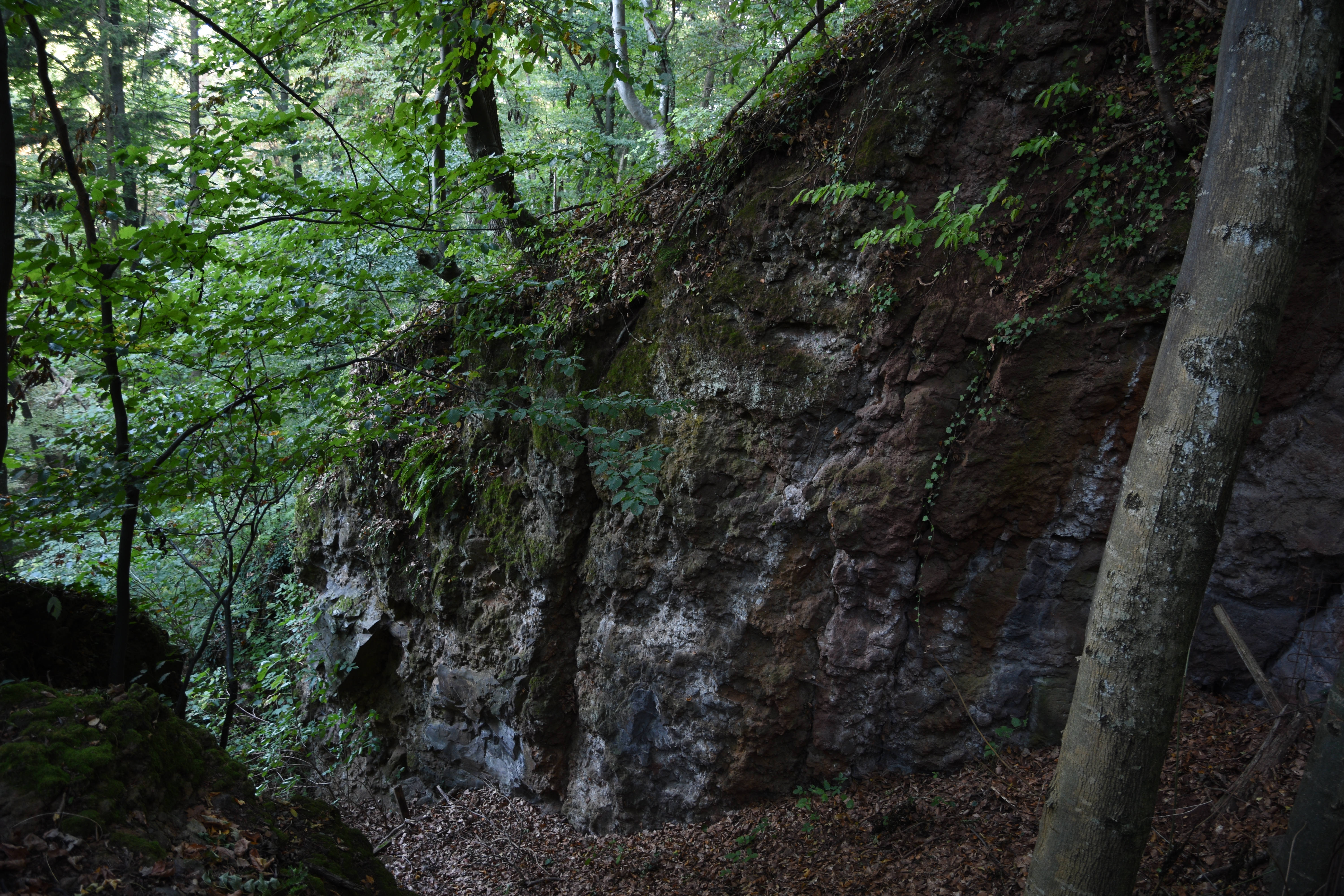 Basalt